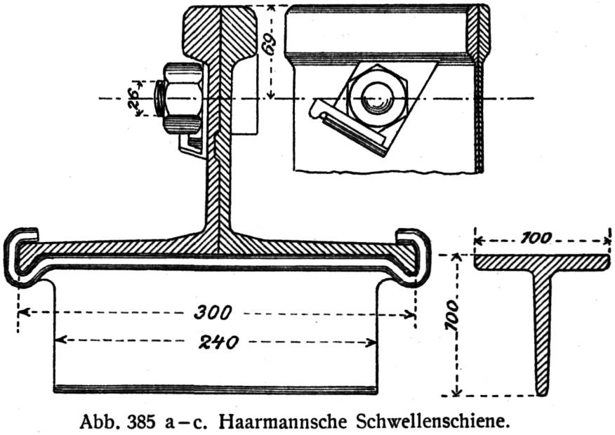 Railroad rail